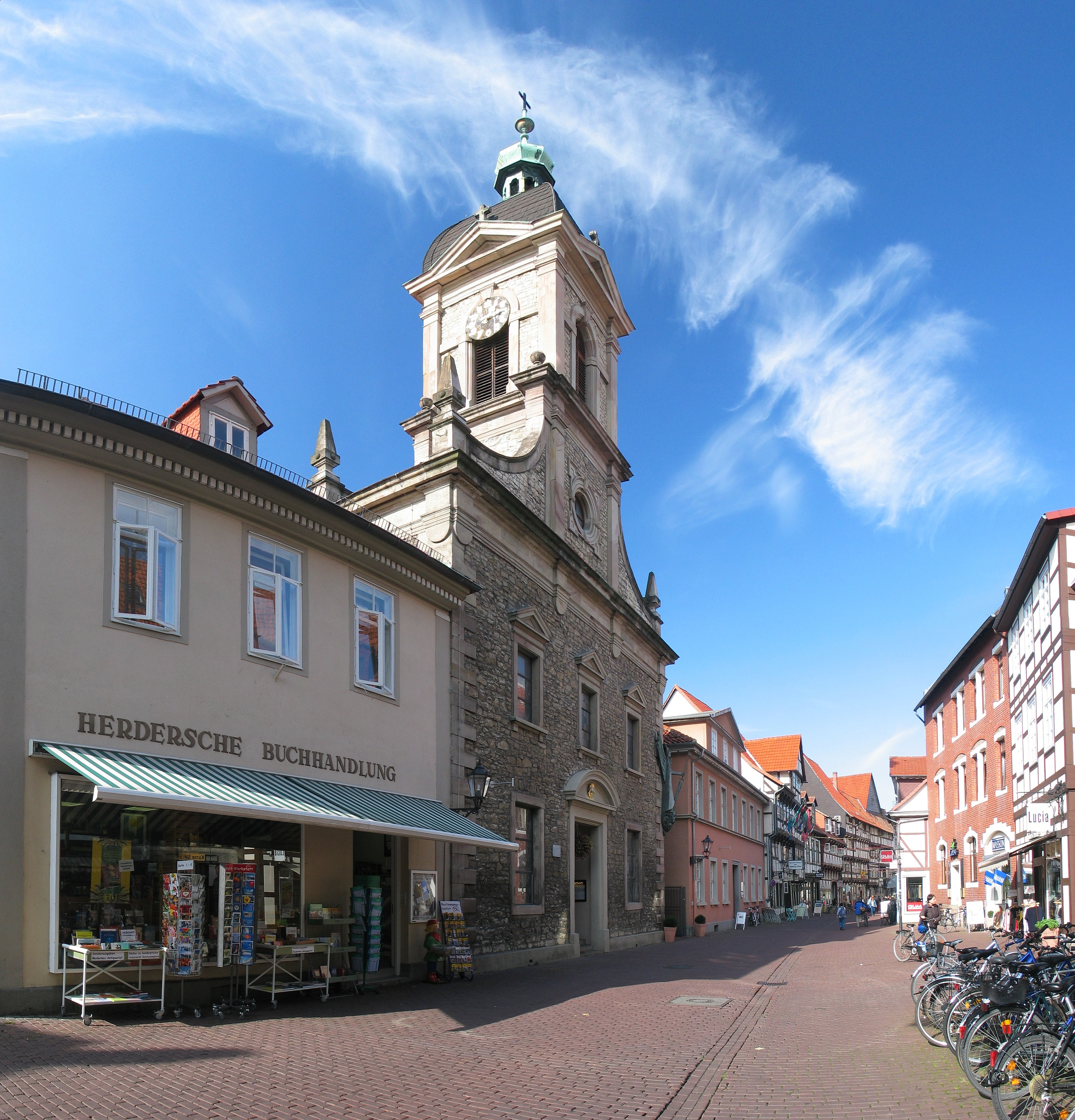 Corner of Tower Street (Turmstraße) and Short Street (Kurze Straße), St. Michael Church and south part of the pedestrian zone.